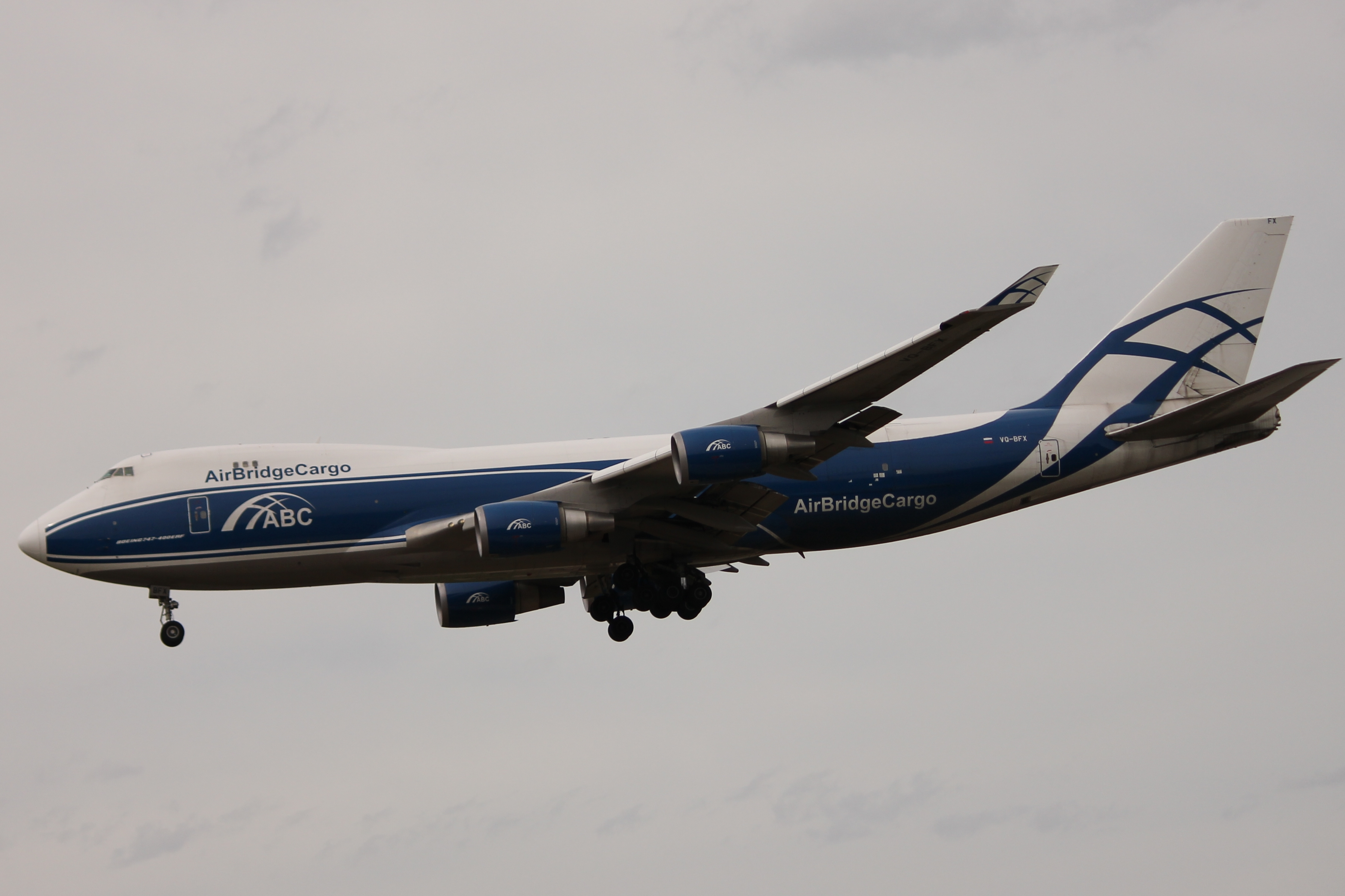 An Air Bridge Cargo 747-400F